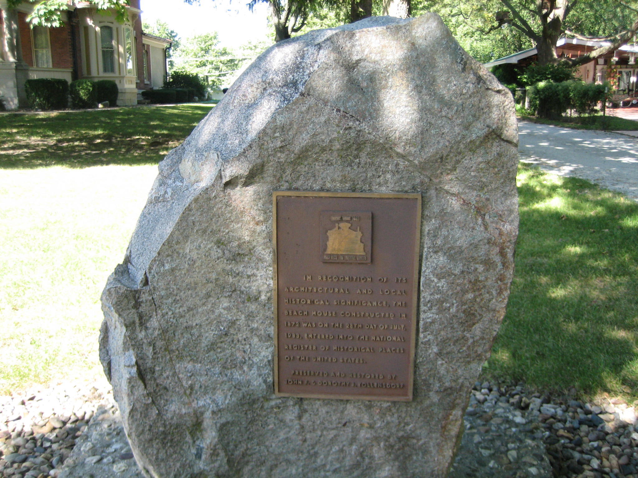 Thomas A. Beach House, Fairbury, Illinois, USA. U.S. National Register of Historic Places.